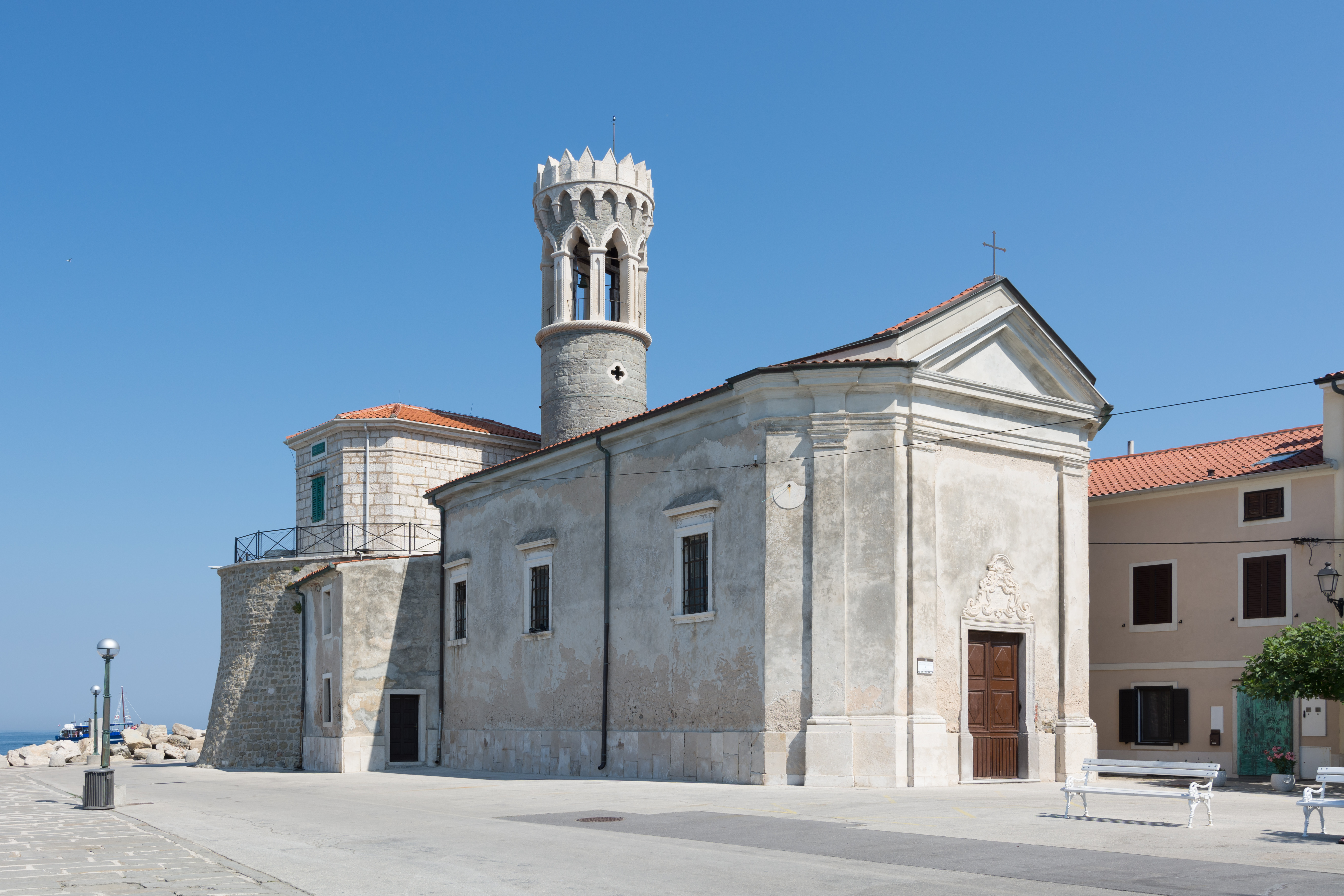 In the 17th century after an epidemic plaque the church of st. Clement´s was renamed to a Our Lady of Health Church. The church was mentioned in the 13th century already and was renewed in 1793 and 1890. 1617 the Piran lighthouse was attached at the northwest side of the church.